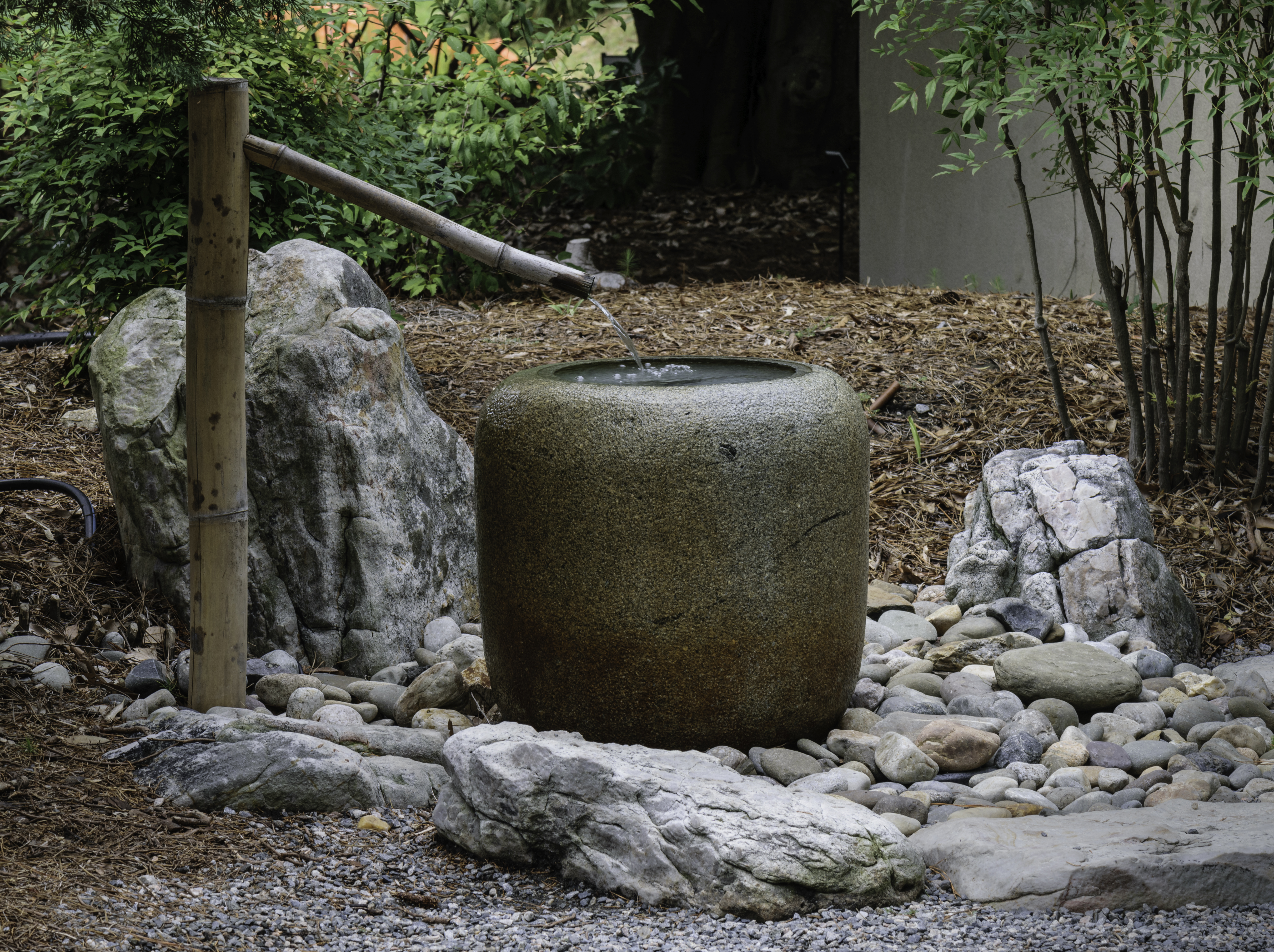 Japanese style cistern fountain at the Japanese Garden at Norfolk Botanical Garden, Norfolk, Virginia. The cistern has a natural tilt to the left.